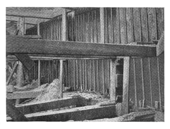 Steel sheet piling along Huron Road of the Alfred A. Pope Building (later known as the Halle Building) in Cleveland, Ohio, in the United States.